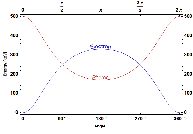 Energies of a photon at 500 keV and an electron after Compton scattering.